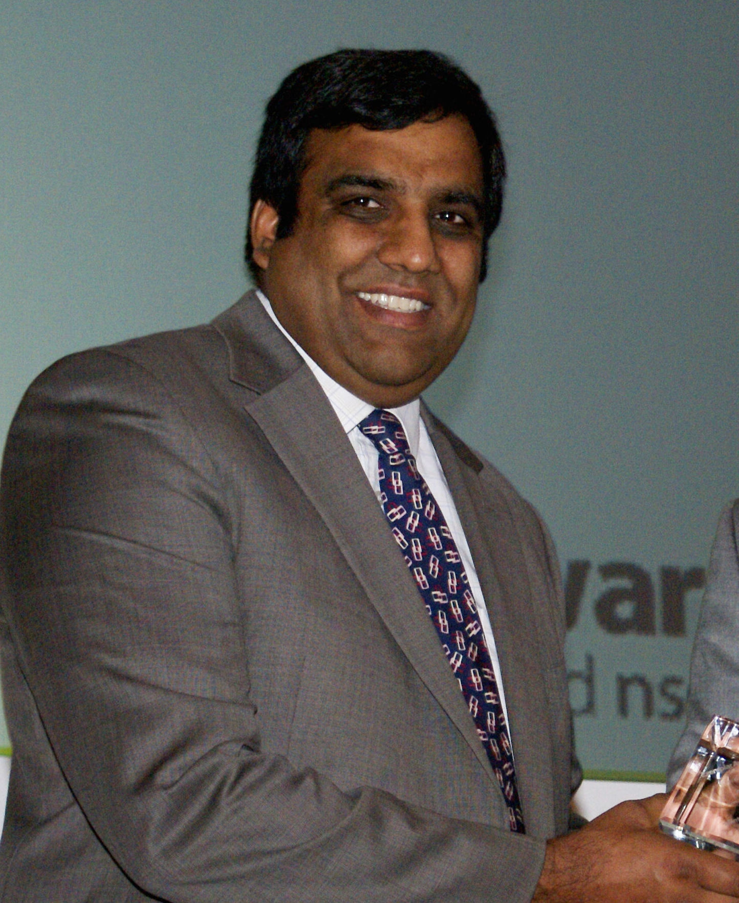 Cllr Shaffaq Mohammed from Sheffield City Council presenting the Green Award to Matt Pennells, GIS Officer, from London Borough of Harrow